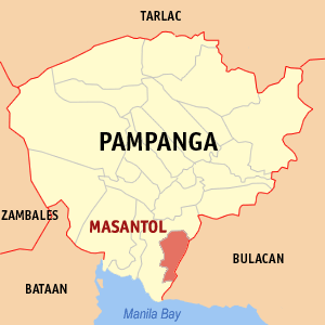 Map of Pampanga showing the location of Masantol